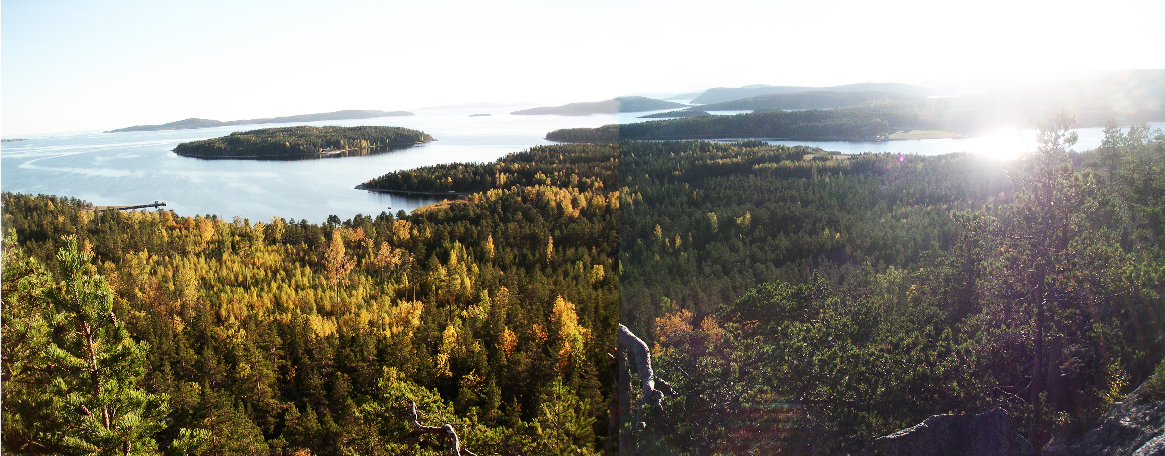 Ögeltjärnsberget